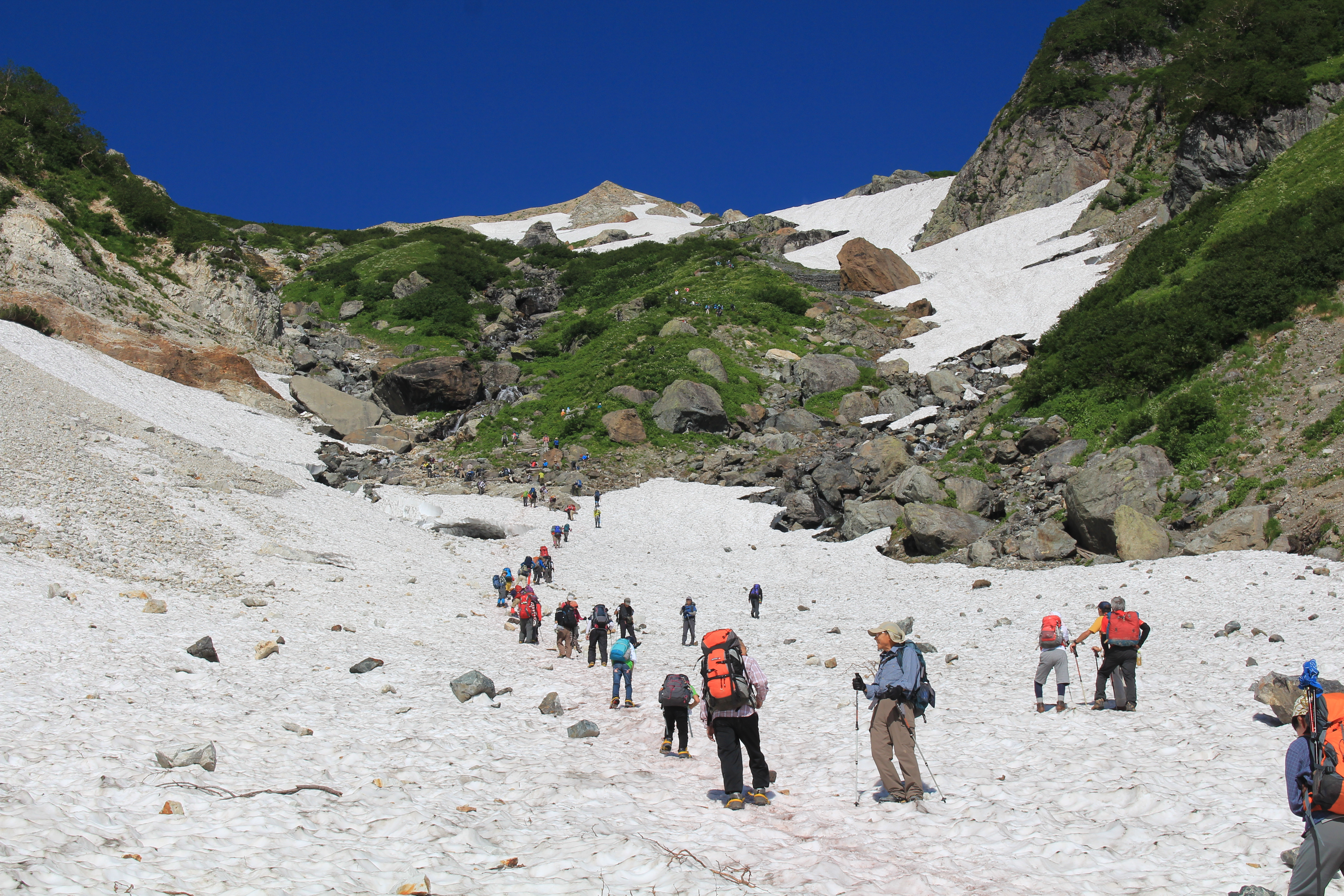 Upper of Shirouma dai sekkei in Mount Shirouma, Hakuba, Nagano prefecture, Japan.